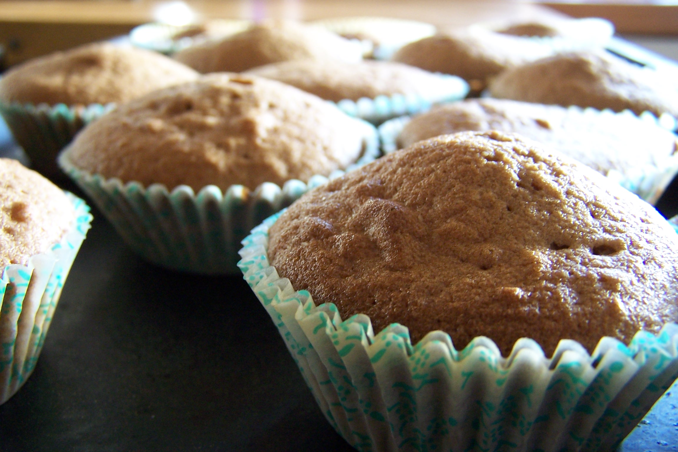 Fairy cakes on an oven tray freshly removed from the oven.